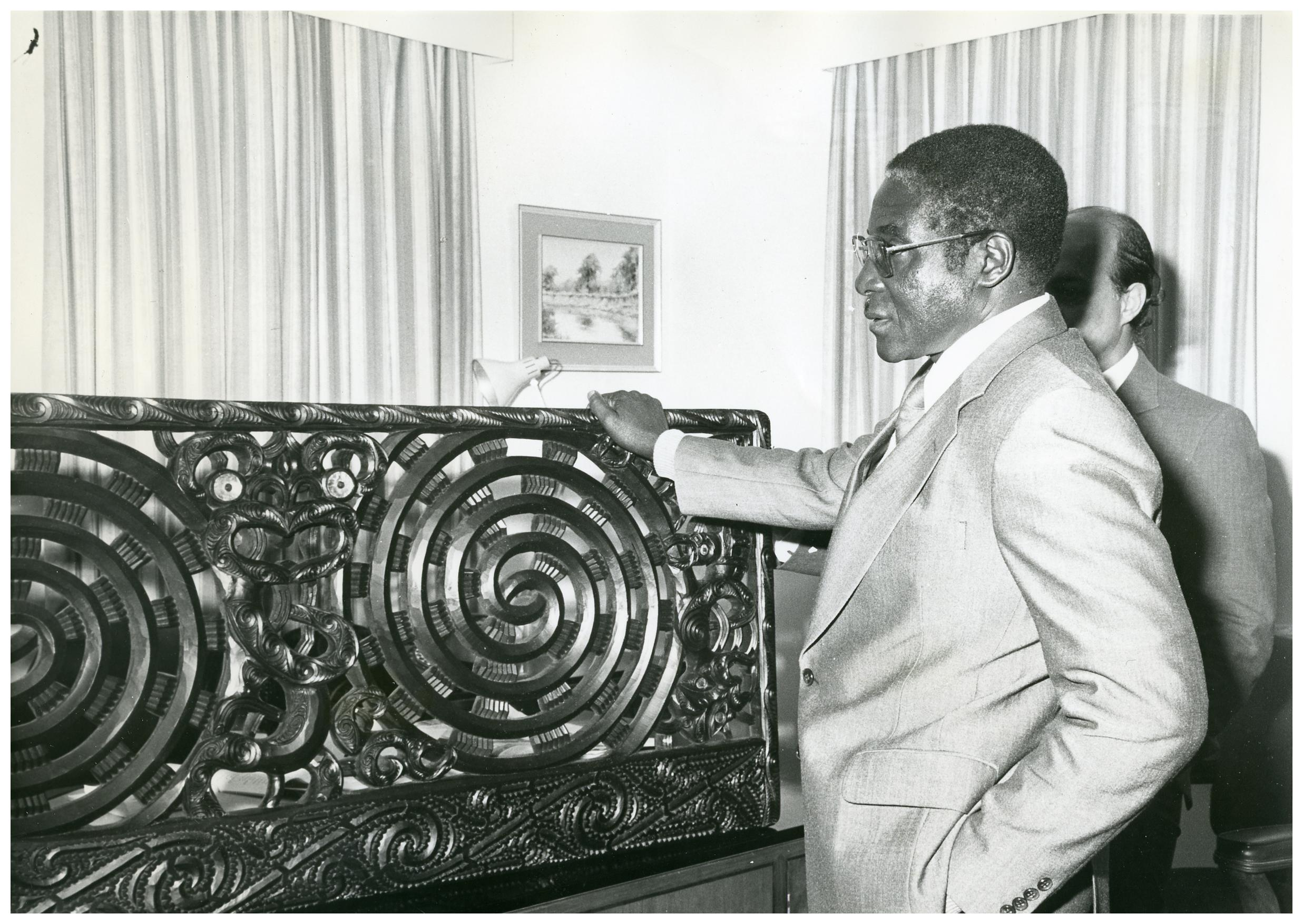 On April 18 1980 Zimbabwe Rhodesia gained independence as Zimbabwe. The government held independence celebrations in Rufaro stadium in Salisbury, the capital. Lord Christopher Soames, the last Governor of Southern Rhodesia, watched as Charles, Prince of Wales, gave a farewell salute and the Rhodesian Signal Corps played "God Save the Queen". Many foreign dignitaries also attended, including Prime Minister Indira Gandhi of India, President Shehu Shagari of Nigeria, President Kenneth Kaunda of Zambia, President Seretse Khama of Botswana, and Prime Minister Malcolm Fraser of Australia, representing the Commonwealth of Nations. Bob Marley sang 'Zimbabwe', a song he wrote, at the government's invitation in a concert at the country's independence festivities. In 1982 for the 2nd anniversary of independence the name of the capital was changed from Salisbury to Harare. This image presented here is of the Zimbabwe Prime Minister in 1980, Robert Mugabe, admiring a Maori carving the New Zealand government gifted to the newly formed nation. The gift was presented by Hon. David Thomson. The image comes from a collection of photographs transferred to Archives New Zealand by the Ministry of Foreign Affairs and Trade. Reference: AAEG W2972 1 37 This item as well as other photographs In the collection can be seen in our Wellington Reading Room. For updates on our On This Day series and news from Archives New Zealand, follow us on Twitter Material from Archives New Zealand